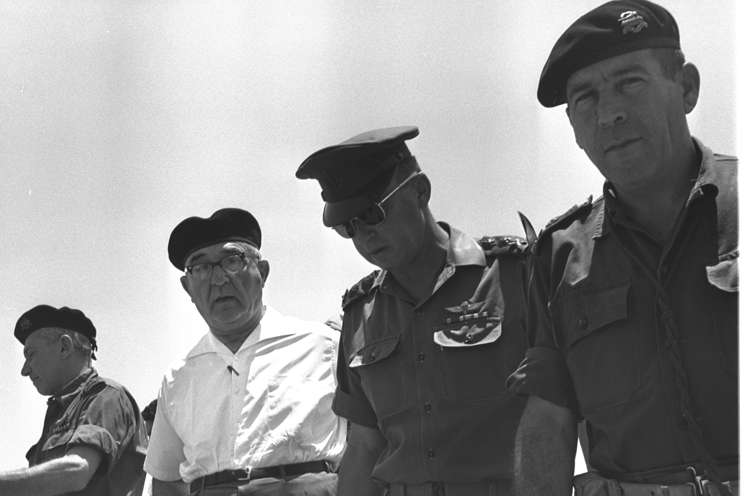 Prime Minister Levy Eshkol (second from left) with Chief of Staff Yitzhak Rabin (second from right) and Major General Israel Tal in the Negev. רהמ לוי אשכול עם הרמטכל יצחק רבין ואלוף טל בסיור בנגב